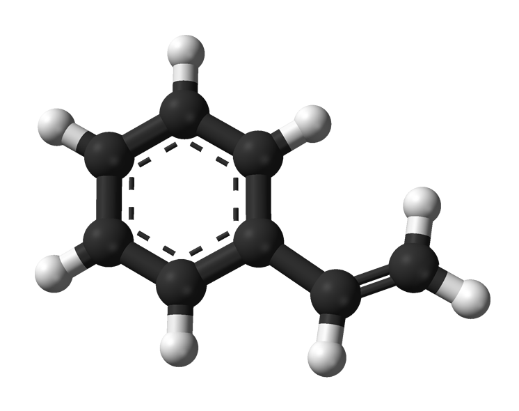 Ball and stick model of the styrene molecule.